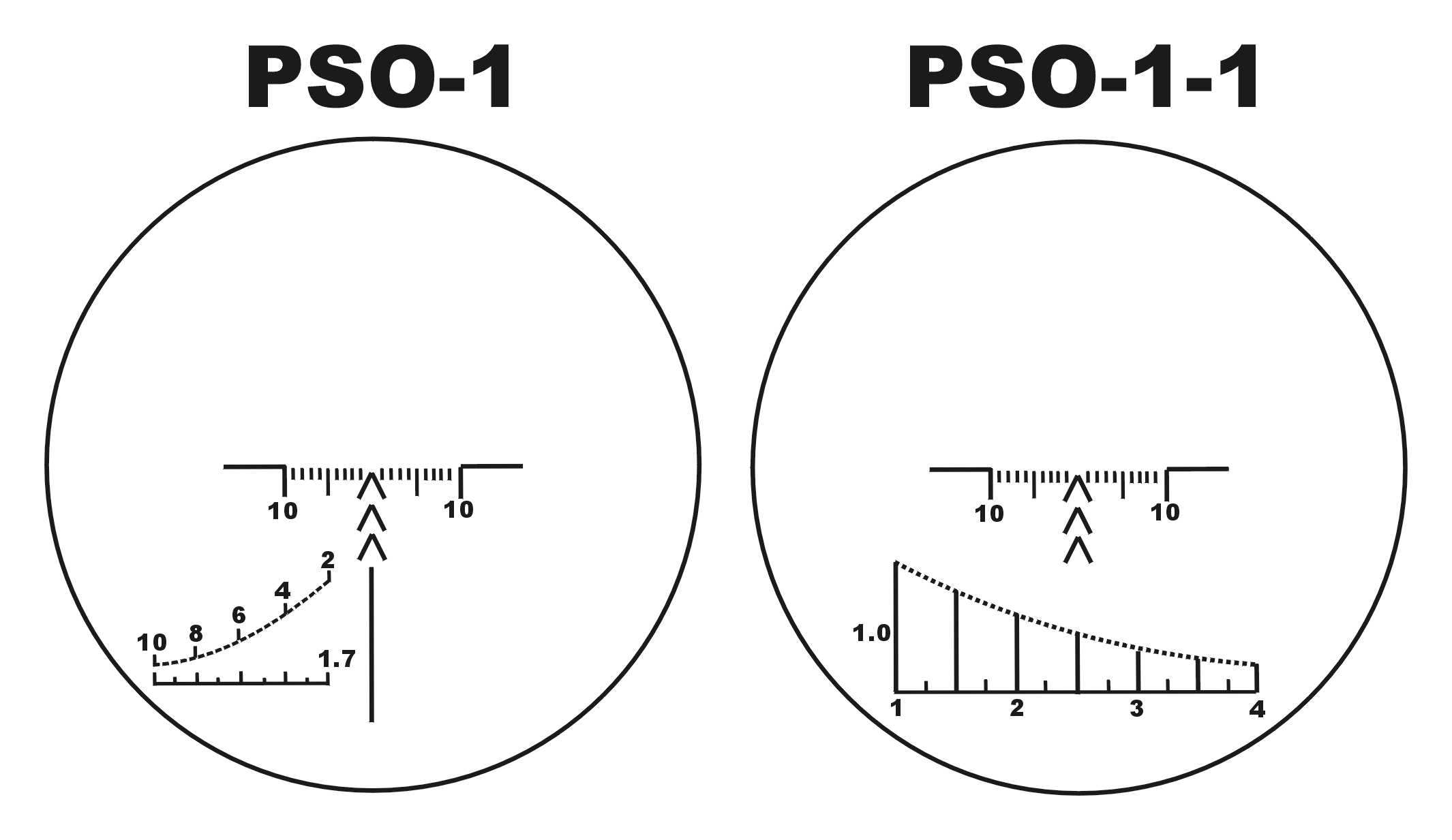 PSO-1 and PSO-1-1 Reticle Scheme